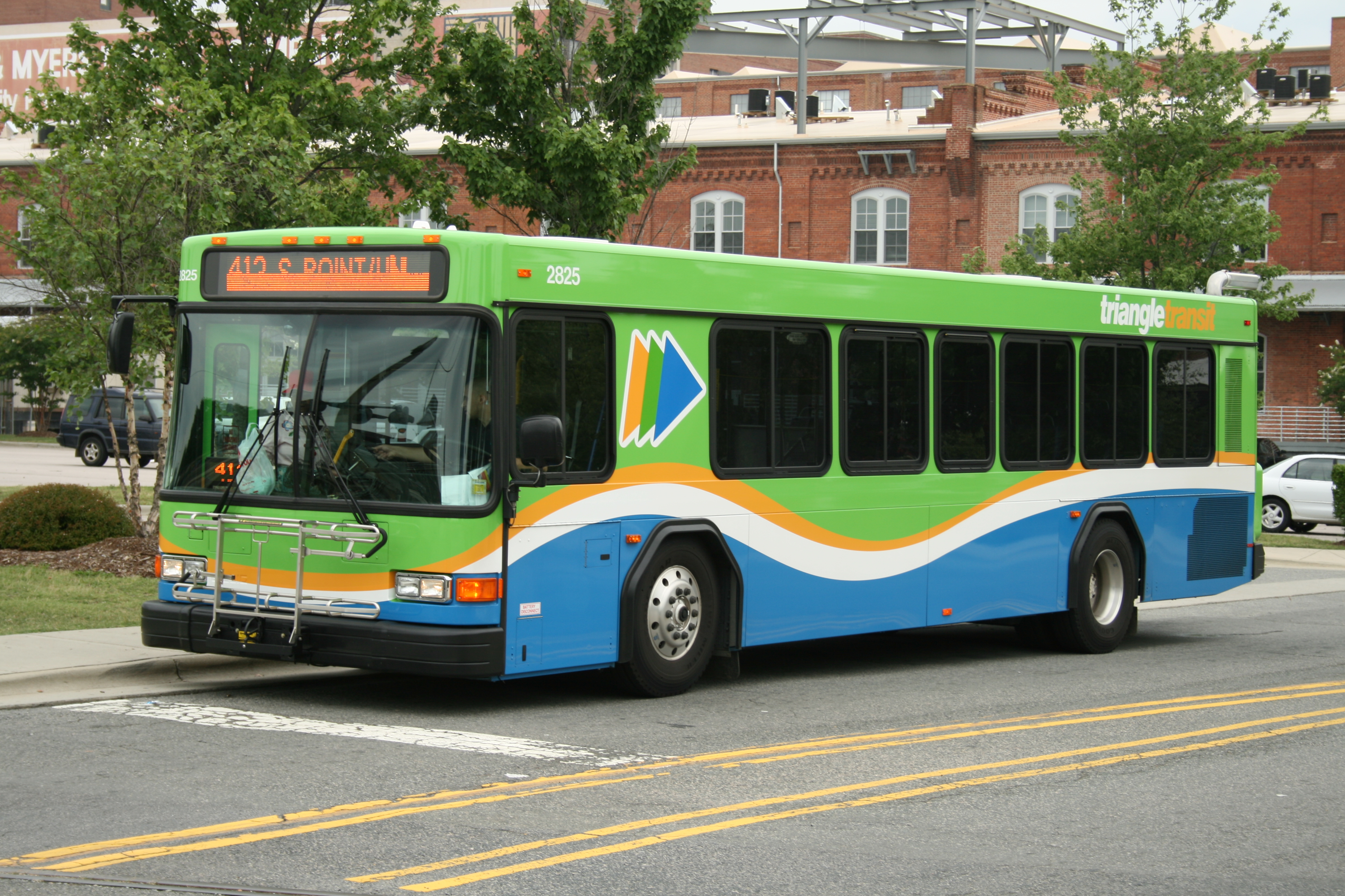 Triangle Transit bus with a corrupted dot matrix display stopped at the DATA terminal in downtown Durham, North Carolina.